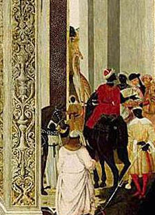 The Adoration of the Magi (Detail) Tempera on wood